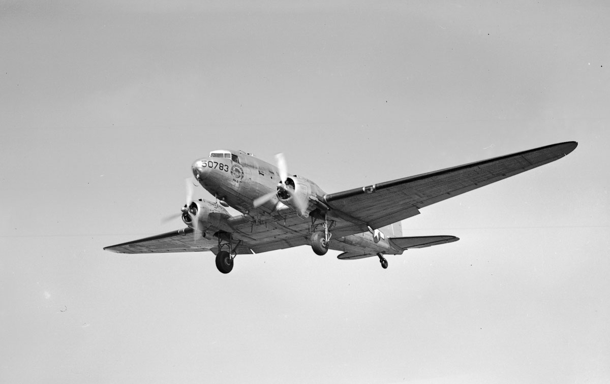 Landing at Oakland, CA, on March 13, 1946.